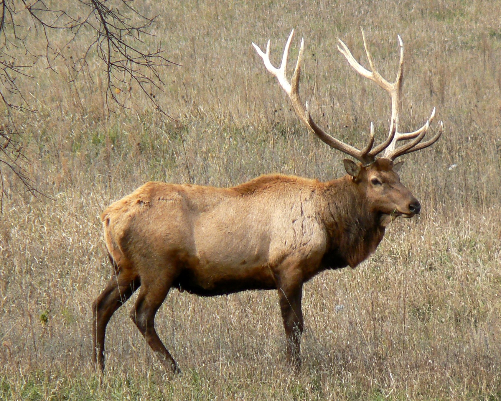 Rocky Mountain bull elk in Nebraska tall grass prairie